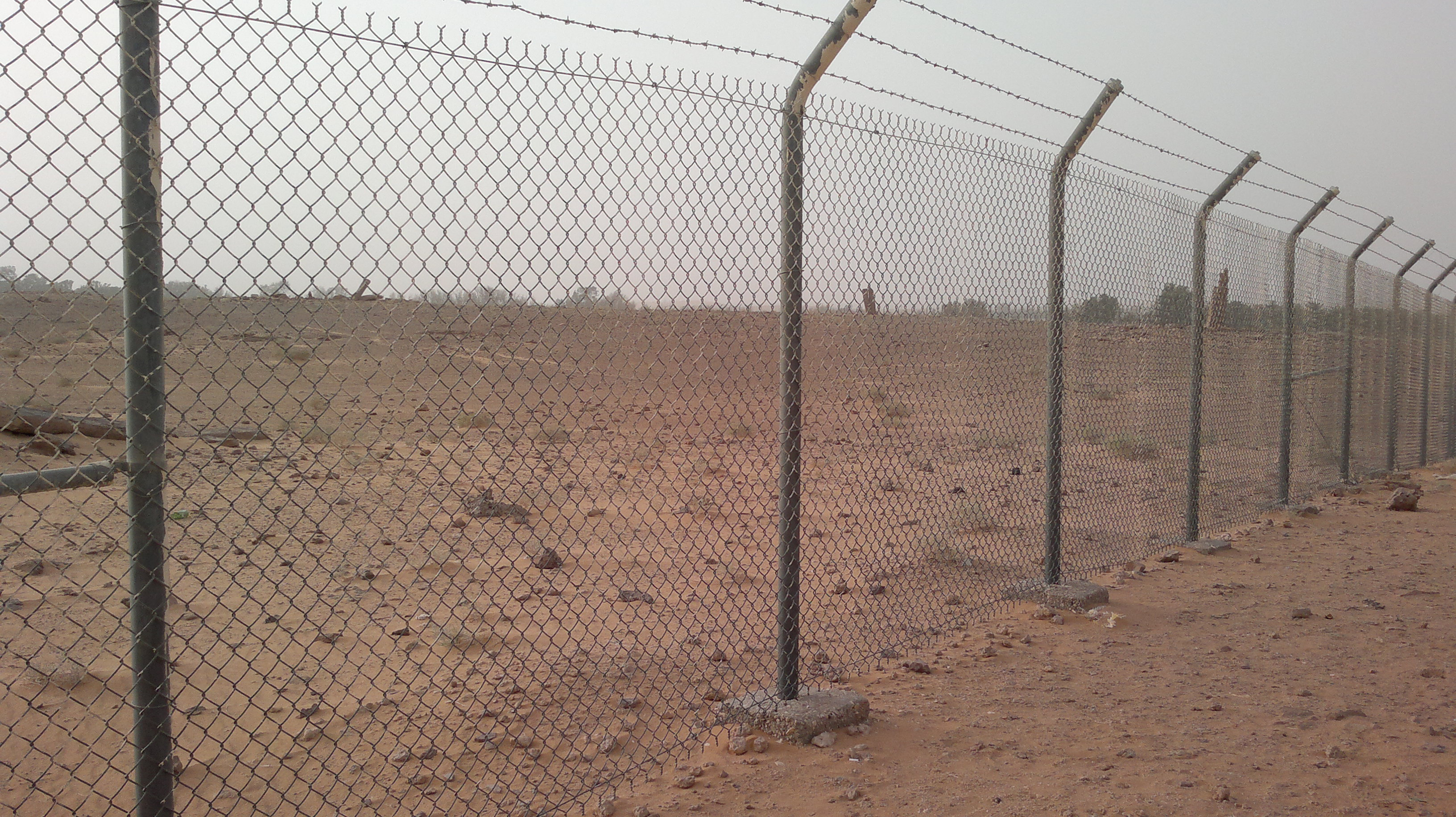 Rajajil standing stones